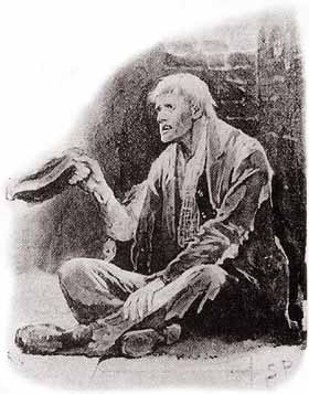 Ilustration of "The Man with the Twisted Lip", which appeared in The Strand Magazine in December, 1891. Original caption was "HE IS A PROFESSIONAL BEGGAR."